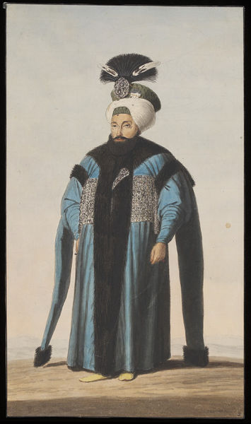 Portrait of the Ottoman Sultan Mahmud II